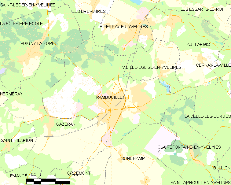 Map of French municipality Rambouillet